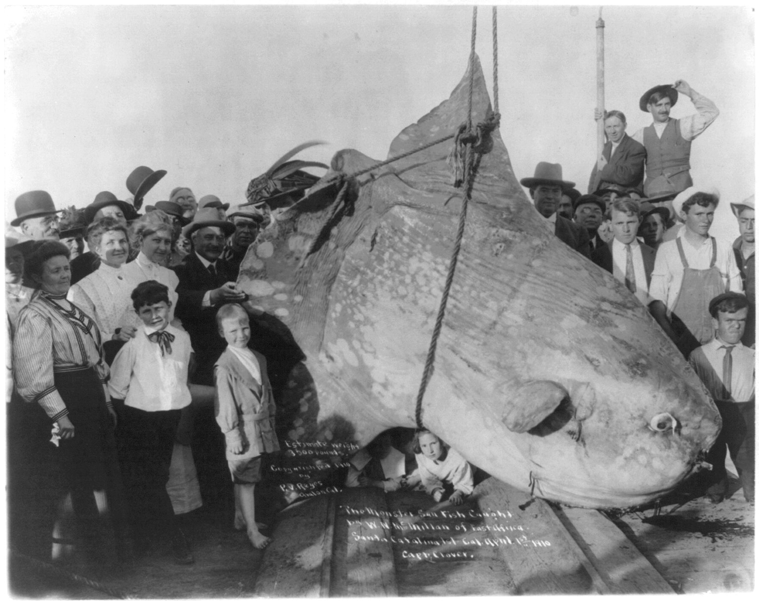 Title: The monster sun fish caught by W.N. McMillan of E. Africa, at Santa Catalina Isl., Cal. April 1st, 1910. estimated wt. 3500 lbs. Abstract/medium: 1 photographic print.